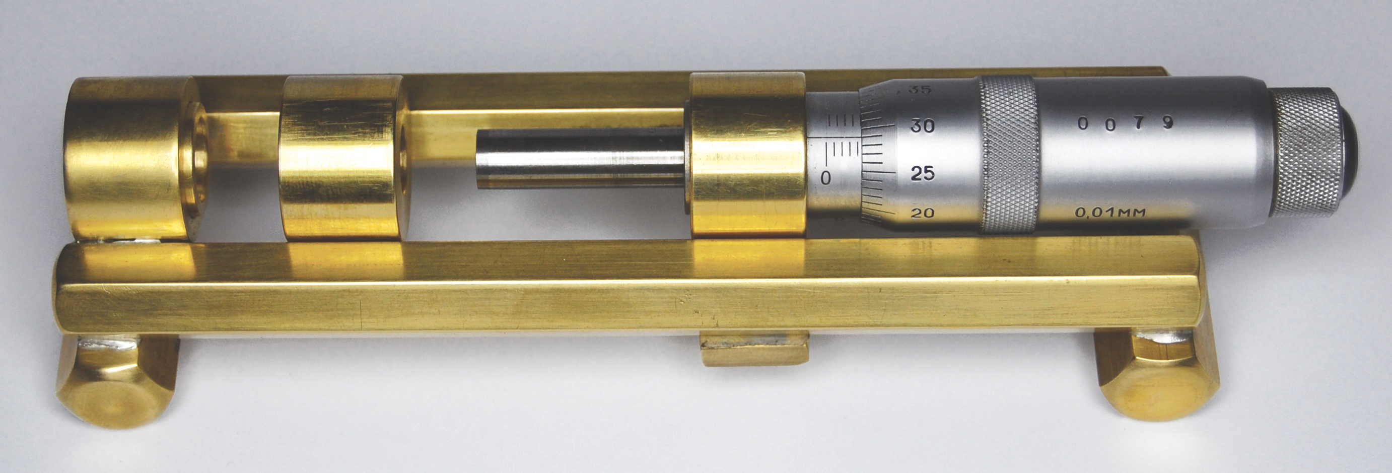 Microadjust Comparator